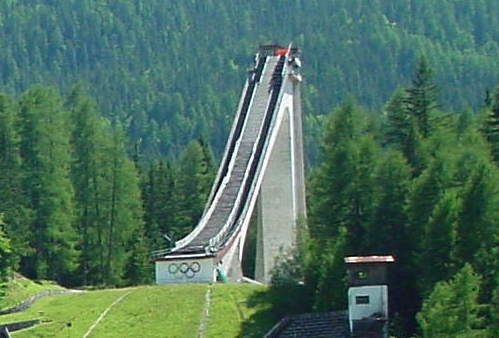 in Cortina d'Ampezzo (Trampolino Olimpico Italia). Site of the Nordic Ski Jumping competitions during the 1956 Winter Olympics (NH K90 - NC K90/15).